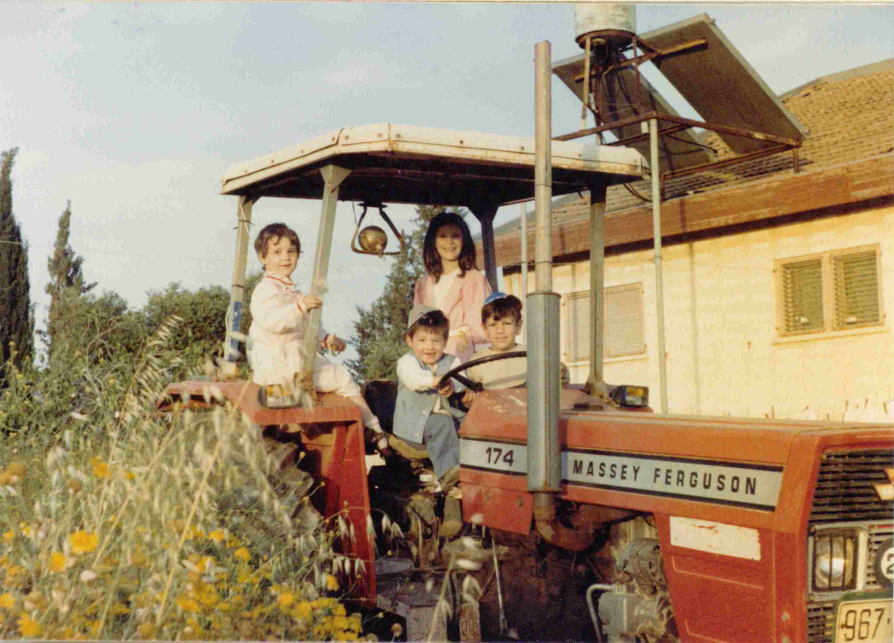 Settlements in Israel